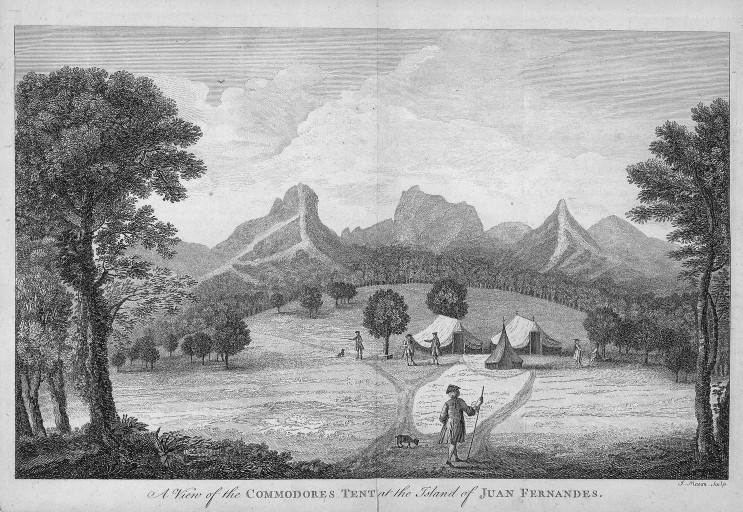 [Illustrations de A Voyage round the world in the years MDCCXL, I, II, II, IV. By George Anson. Compiled... by Richard Walter] / J. Mason, grav. ; Richard Walter, aut. du texte Éditeur : J. and P. Knapton (london) 1748 Present day Robinson Crusoe Island, in the Archipielago Juan Fernandez, Chile.